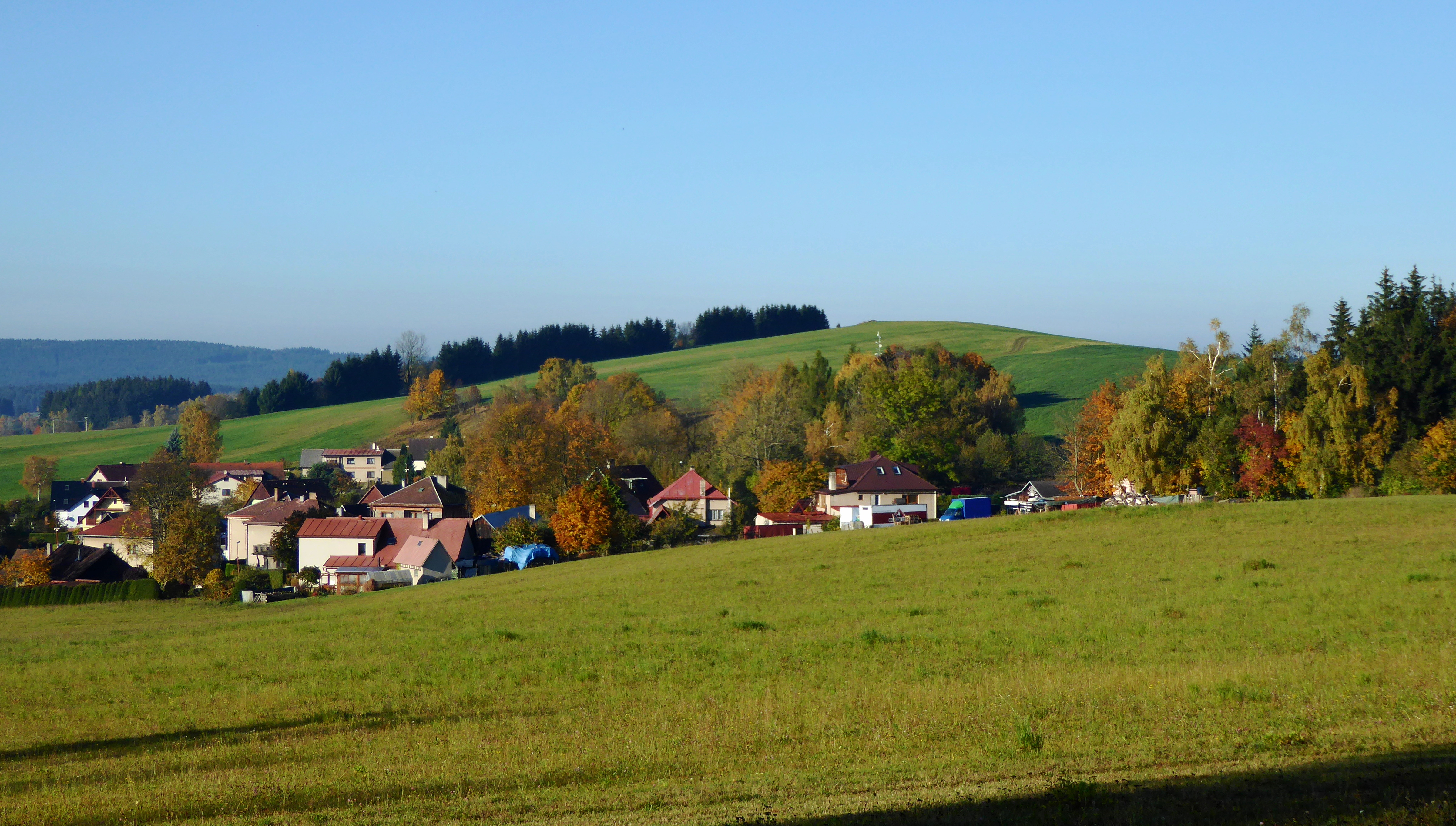 View of the hill in the village Svratouch with the traditionally local name On dolls (czech version in the written form: Na panenkách). The name probably originated from the designation of uncultivated land, so-called the original – virgin meadows. The general location designation should would therefore in the written form with a lowercase letter in the title, in the czech written form Na panenkách. The geographic official name of hill and peak with an altitude of 737.4 m is in written form: At hanged (the standardized name in the czech version: U oběšeného). Czech Geodetic and Cadastral Office presents a trigonometric point at an altitude of 737.38 m on the cadastral territory of Svratouch. Within the regional divide of the Czech Georelief it is the highest peak in the geomorphological whole of Železné hory. It lies on the southeast edge of the mountain range, on the eastern slope of the hill is located the border with the "Hornosvratecká" highlands (geomorphological whole). The boundaries of geomorphological units lead from the top of the saddle (708 m above sea level) roughly to the south of the valley of the river Svratka. View of the hill from the east, from the hillside of Otava (734,5 m asl.). Summary from the Czech description. Photo-location: Czechia, Pardubice Region, the village of Svratouch.